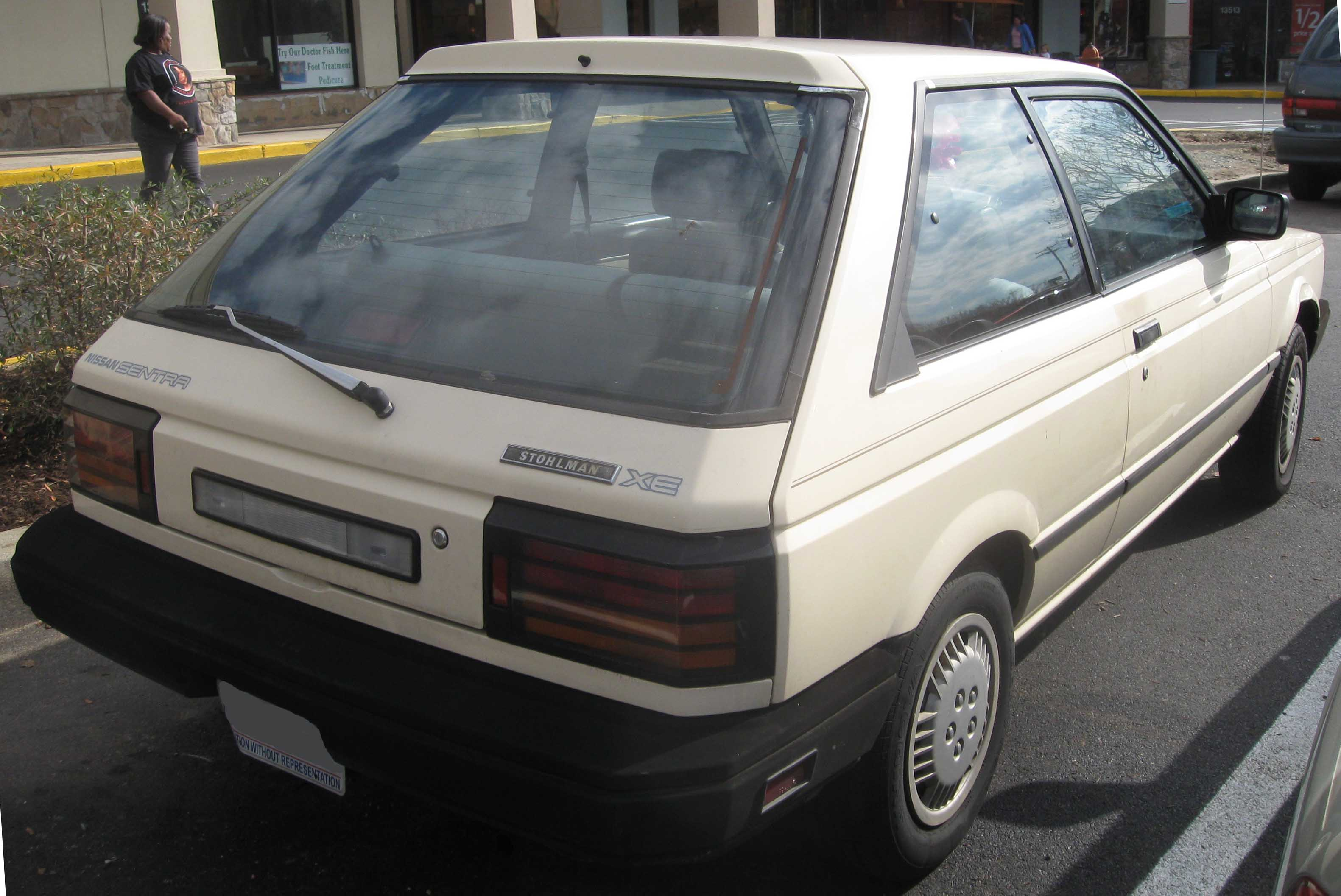 1987-1990 Nissan Sentra photographed in Aspen Hill, Maryland, USA.